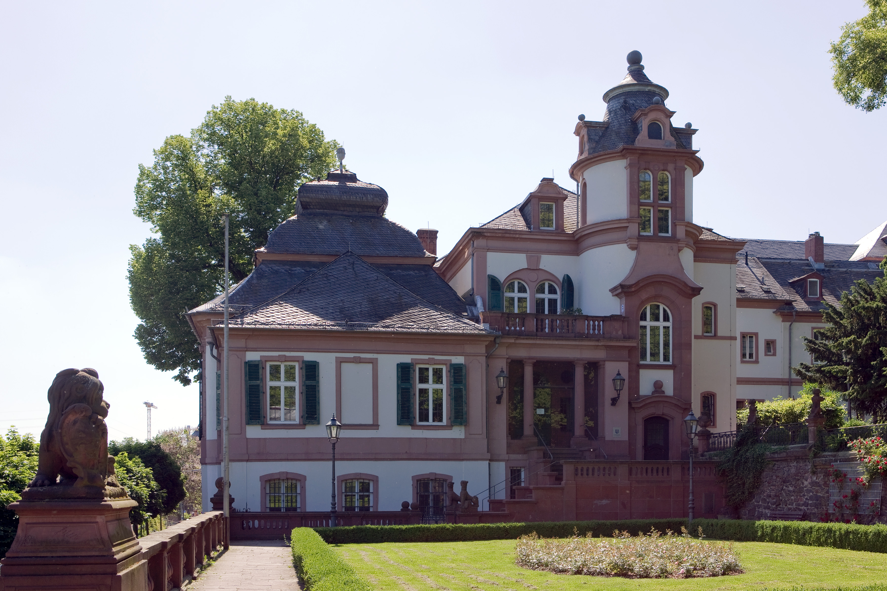 Frankfurt on the Main: Western garden pavilion of the Bolongaropalast (Bolongaro Palace) as seen from the east